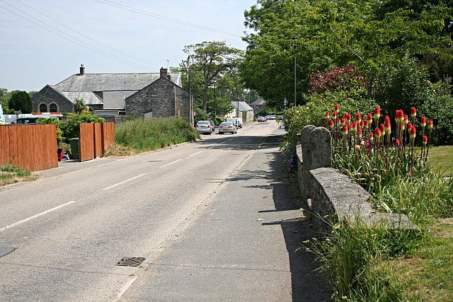 The Village of Mitchell. Looking along the road through the village to the east and the centre of the village. This scene is brightened up by the Red Hot Pokers growing in the garden in the foreground.